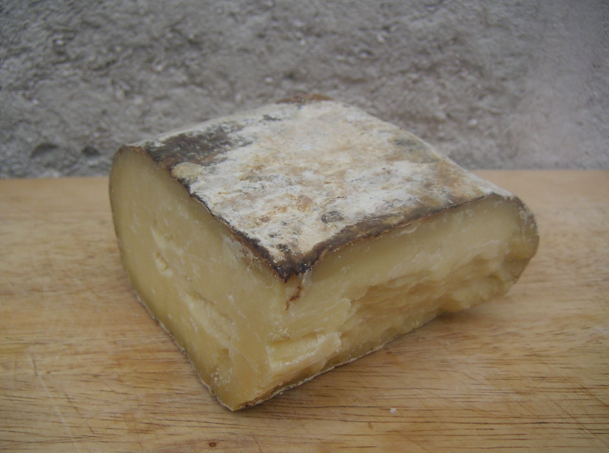 Mahón-Menorca Cheese